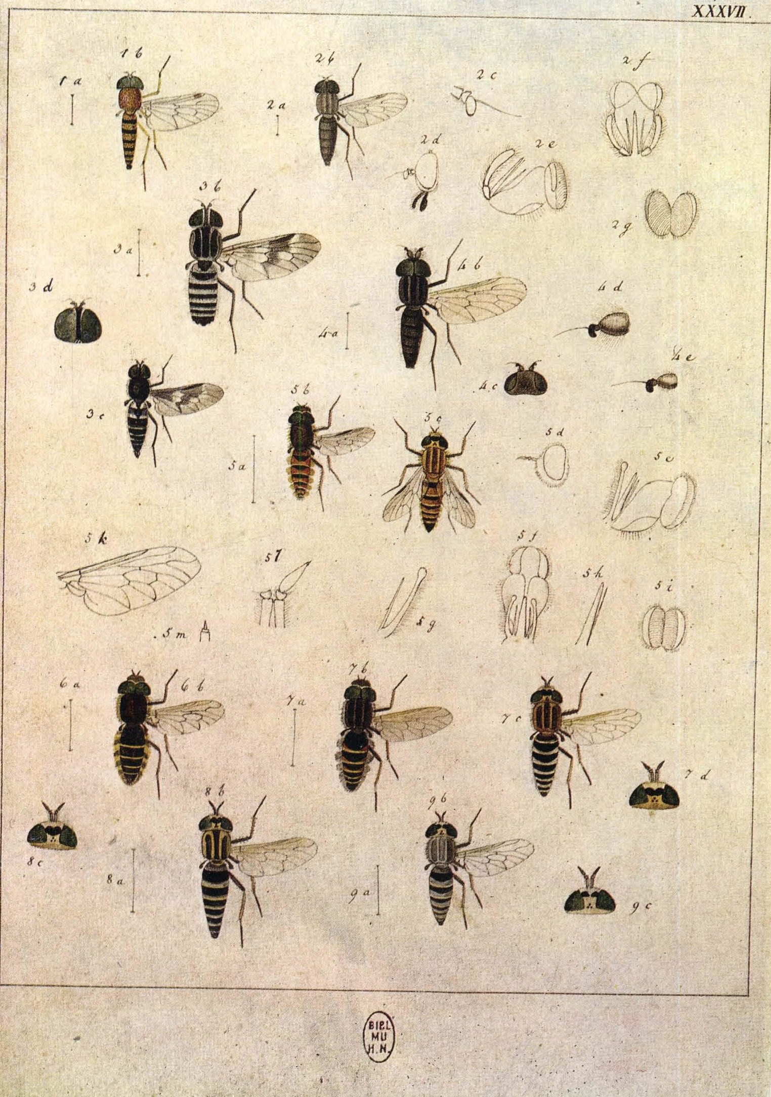 Johann Wilhelm Meigen, 1790 Abbildung der europäischen zweiflügeligen Insekten nach der Natur Von Joh. Wilh. Meigen zu Stolberg bei Aachen 1 Taf XXXVII see here for text Valid names and synonyms at Catalogue of Life (Annual Checklist) and Nomenclator.Types at MNHN collections database Note Europäischen Zweiflügeligen includes species described by previous authors - Linnaeus, Fallen, Wiedemann, Fabricius, Scopoli, Forster, Rossi, Macquart, Robert etc. 1 Rhagio diadema Fabricius, 1775 nomen dubium 2 Symphoromyia immaculata (Meigen 1804) 3 Symphoromyia crassicornis (Panzer 1806) 4 Solva marginata (Meigen, 1820) ? 5 Thereva nobilitata (Fabricius, 1775) 6 Thereva cincta Meigen, 1820 7 Thereva plebeja (Muller, 1776) 8 Thereva taeniata Meigen, 1820 synonym of Thereva cincta 9 Thereva albipennis Meigen, 1820 synonym of Thereva unica